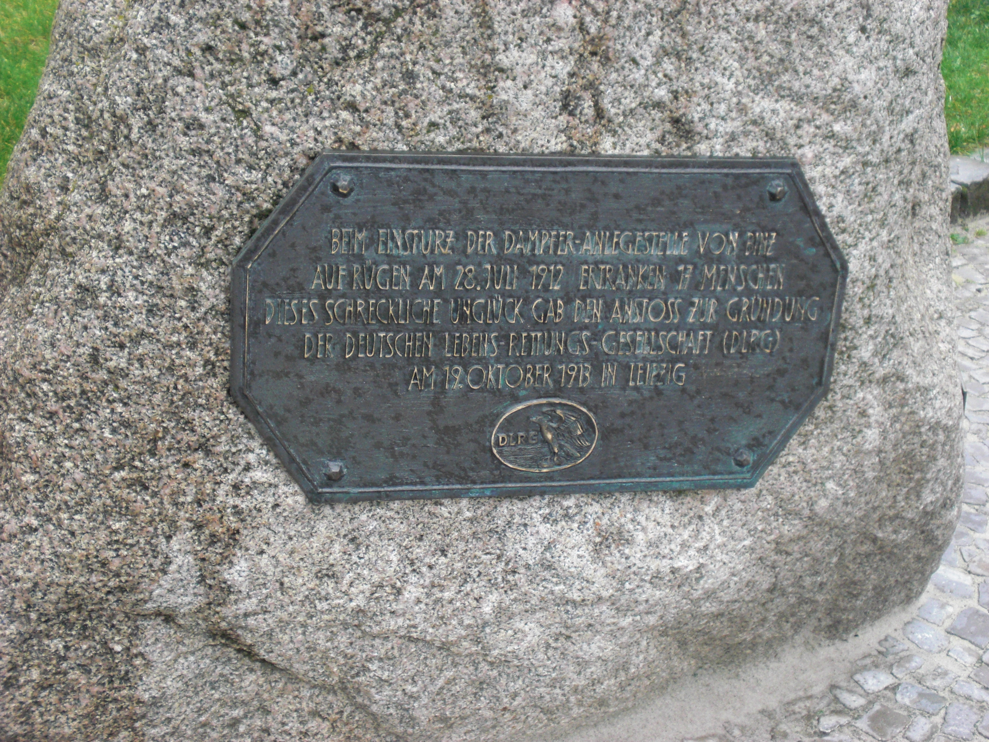 Plate on a stone in memory of the accident leading to the founding of the DLRG